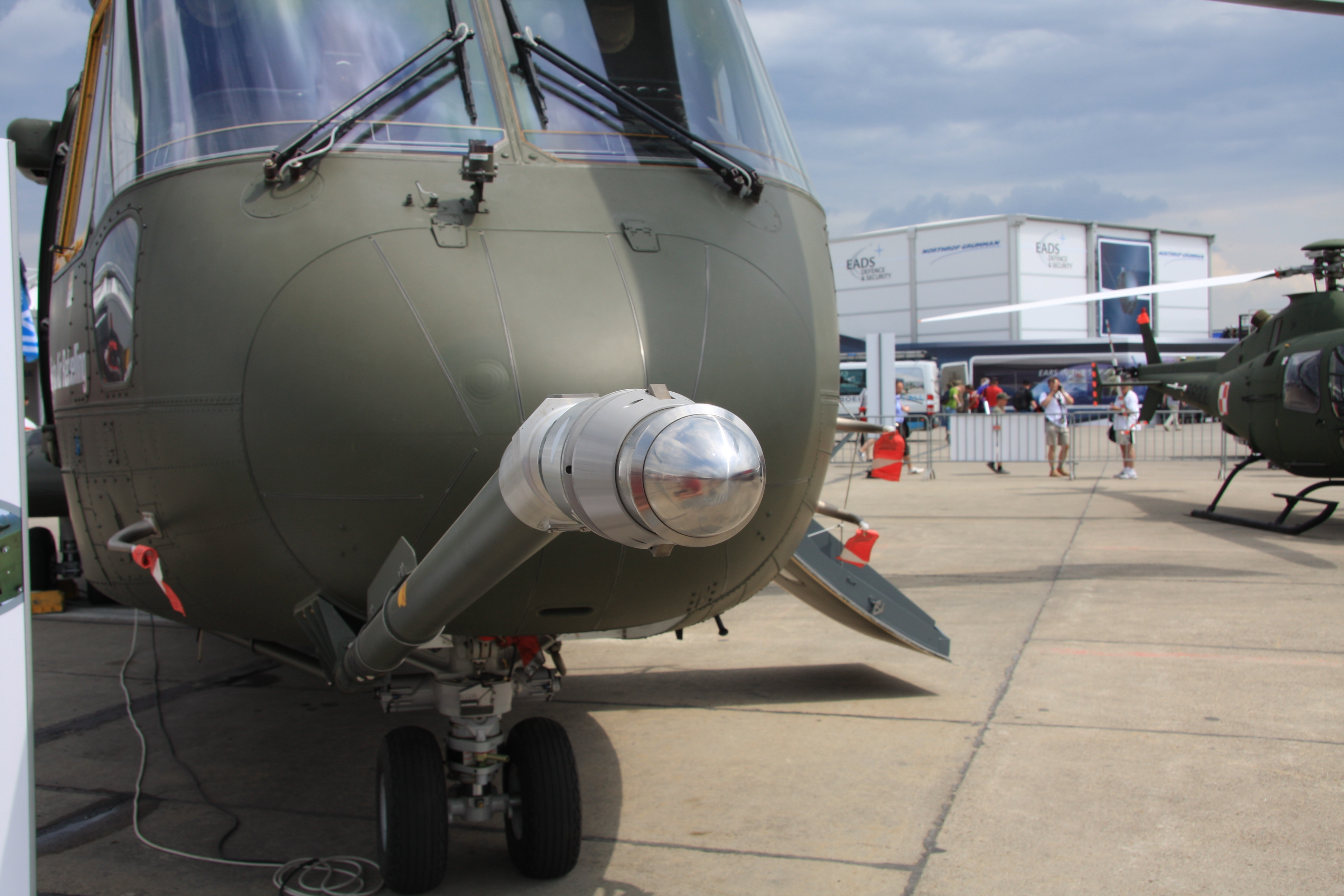 A probe for aerial refueling on an AgustaWestland AW101 (picture taken during the International Air and Space Exhbition)